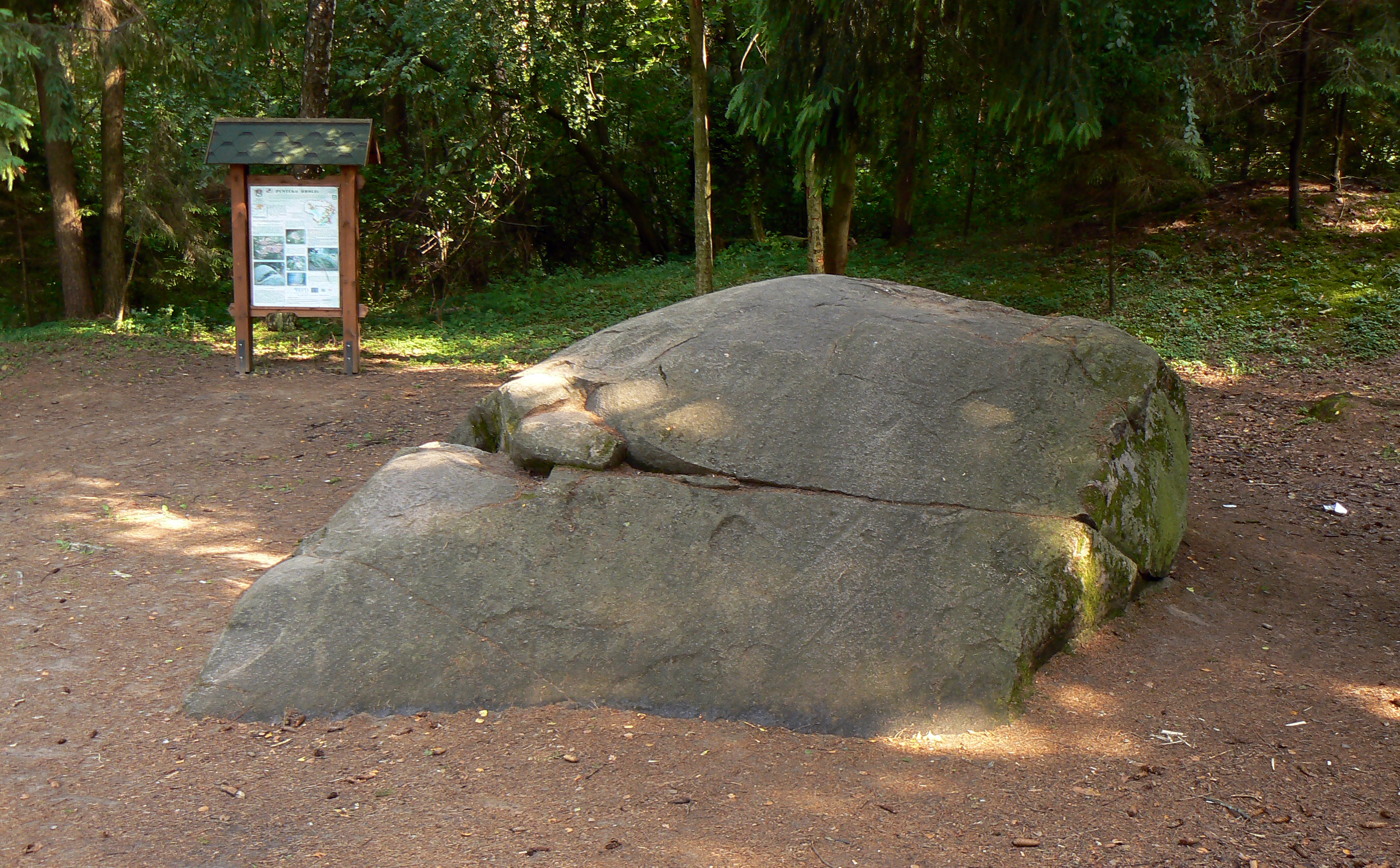 Puntuko brolis (Brother of Puntukas), 5.94 m wide and 4.7 m long boulder in Anykščiai district, Lithuania.